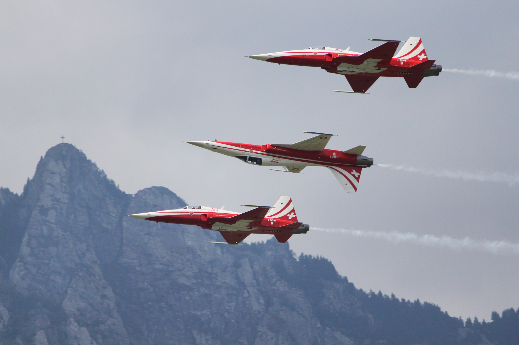 J-3091, J-3082 and J-3085 of Patrouille Suisse performing a show during the festivities for the 75th anniversary of Locarno Airport. In the background mount Sassariente.